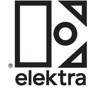 Elektra Records logo